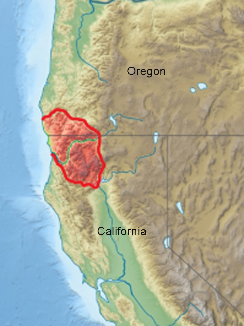 USA Region West Klamath Mountains location map